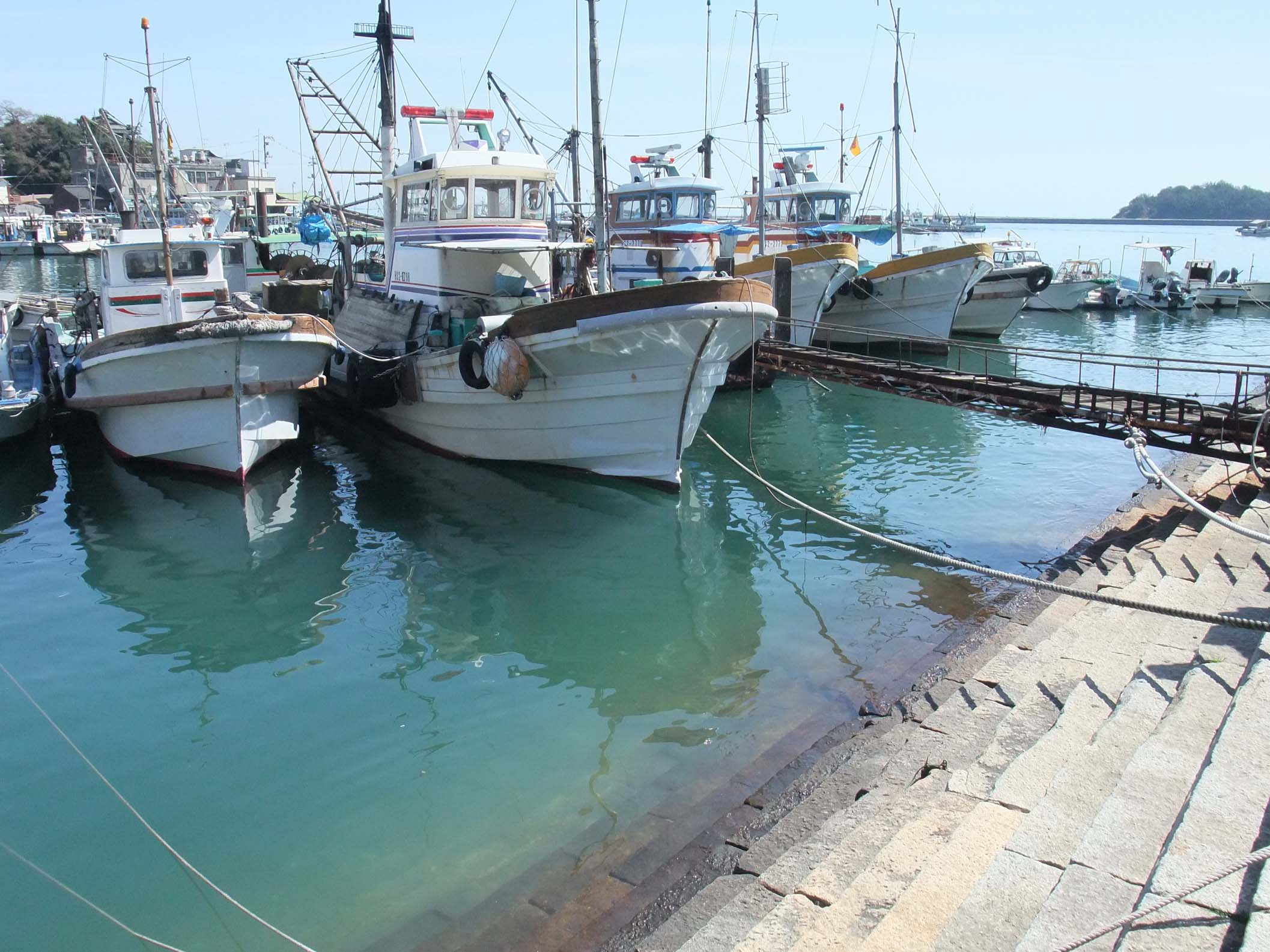 Gangi in Tomonoura